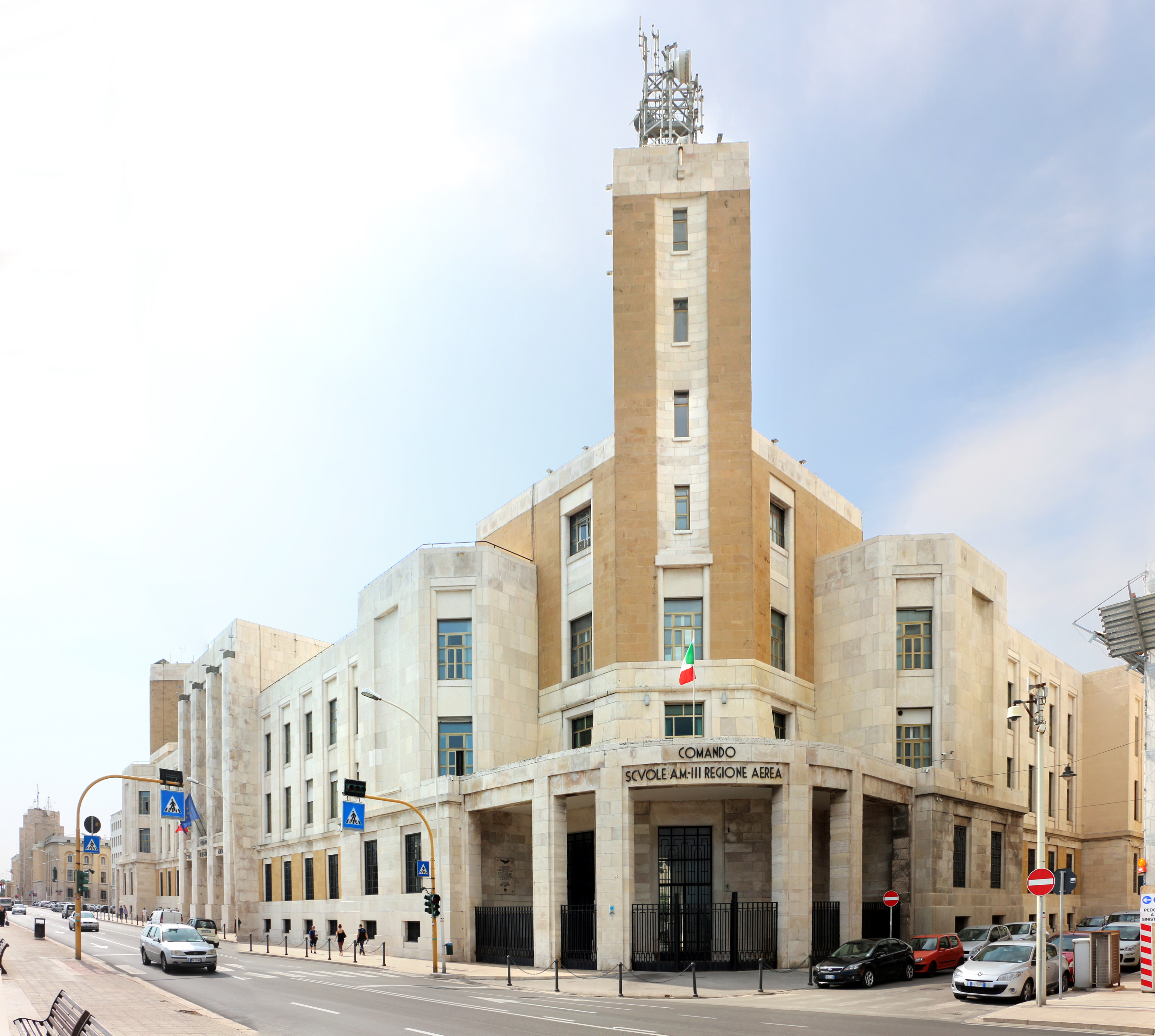 Lungomare (Bari)